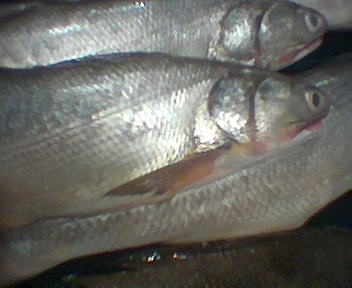 Elops machnata for sale in a market in Metro Manila in the Philippines.